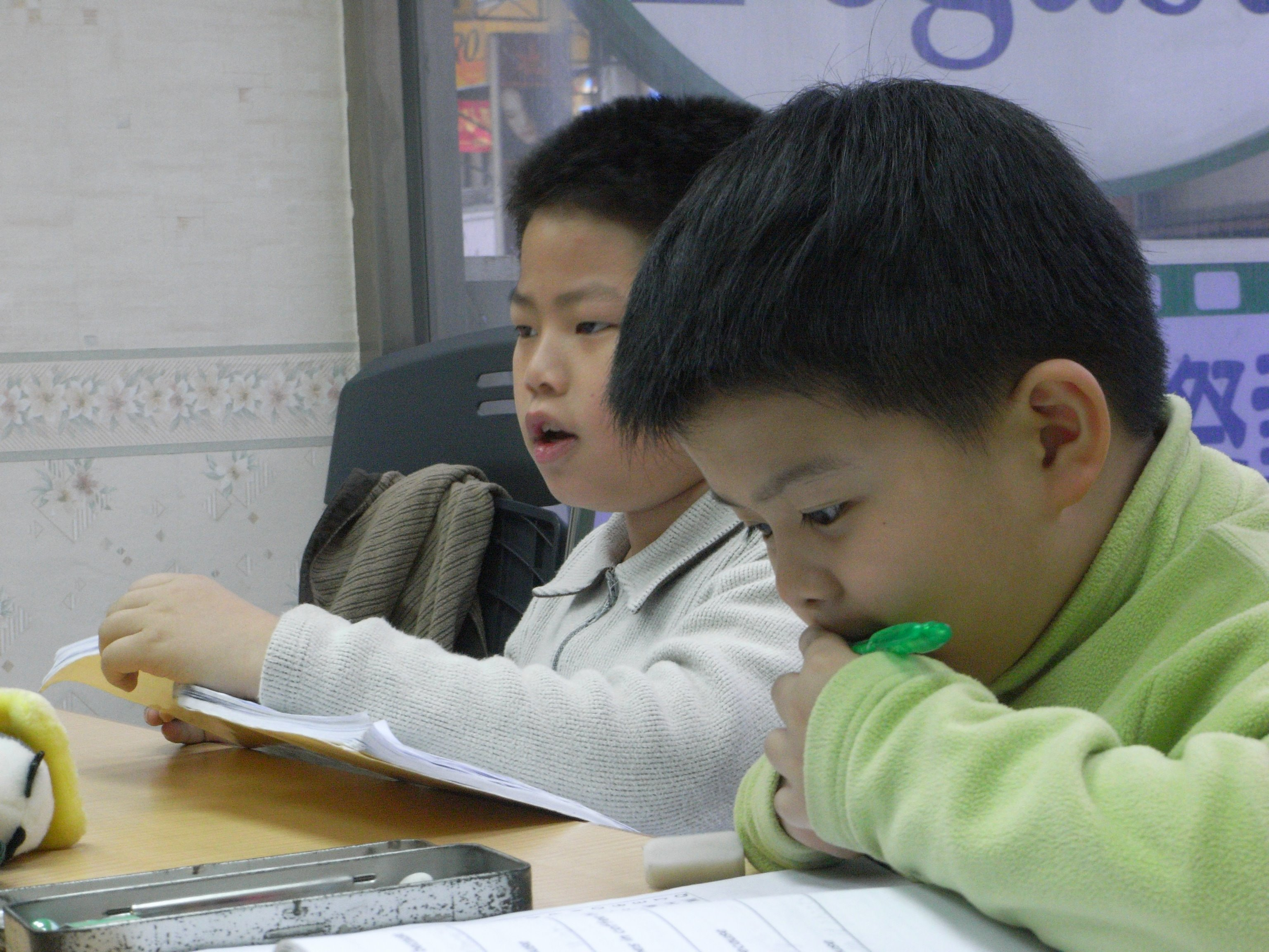 Two students studying English at a Taiwanese cram school (buxiban).